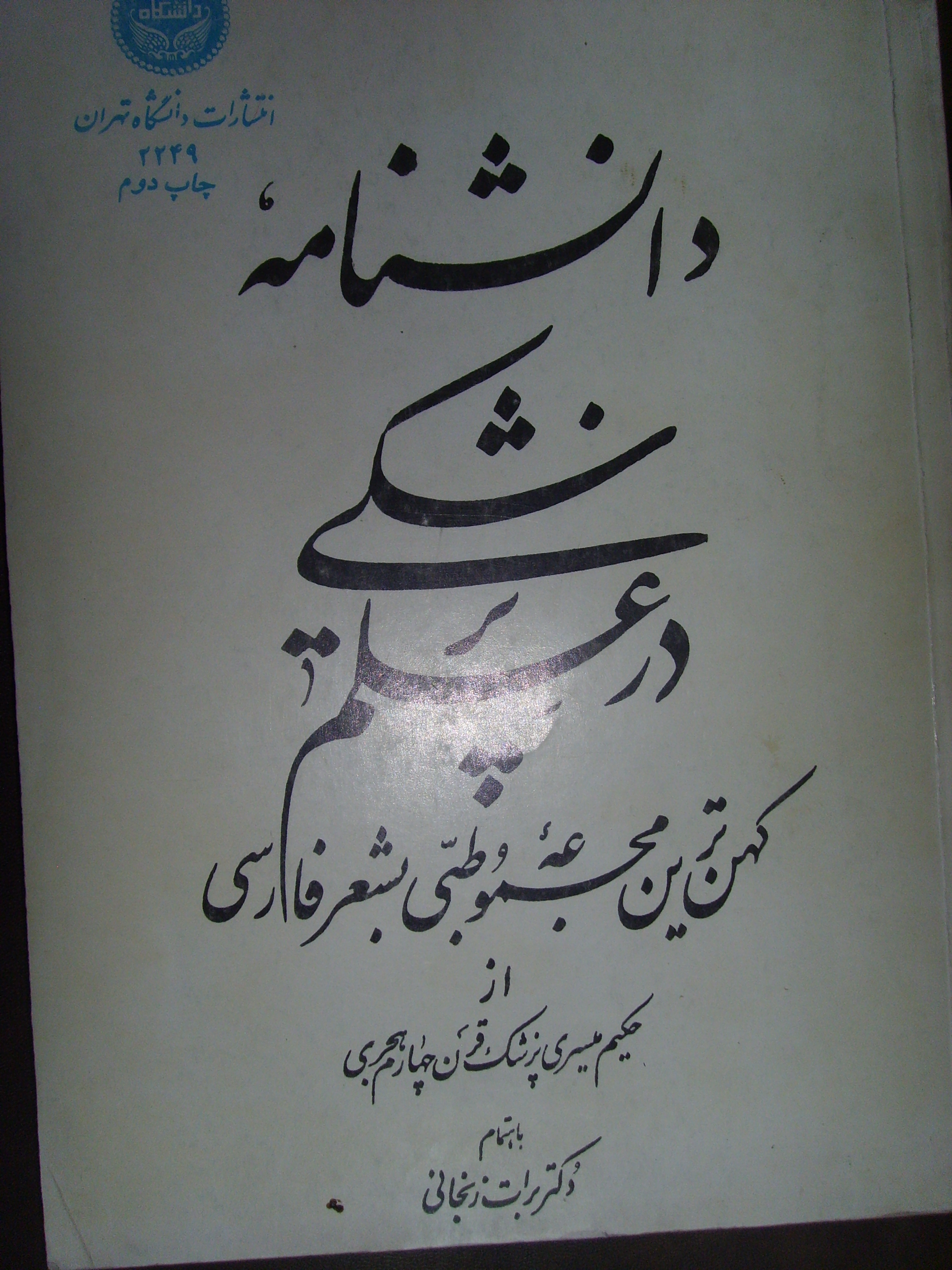 A book of Iranian Traditional Medicine (ITM) ,first medical poetic book